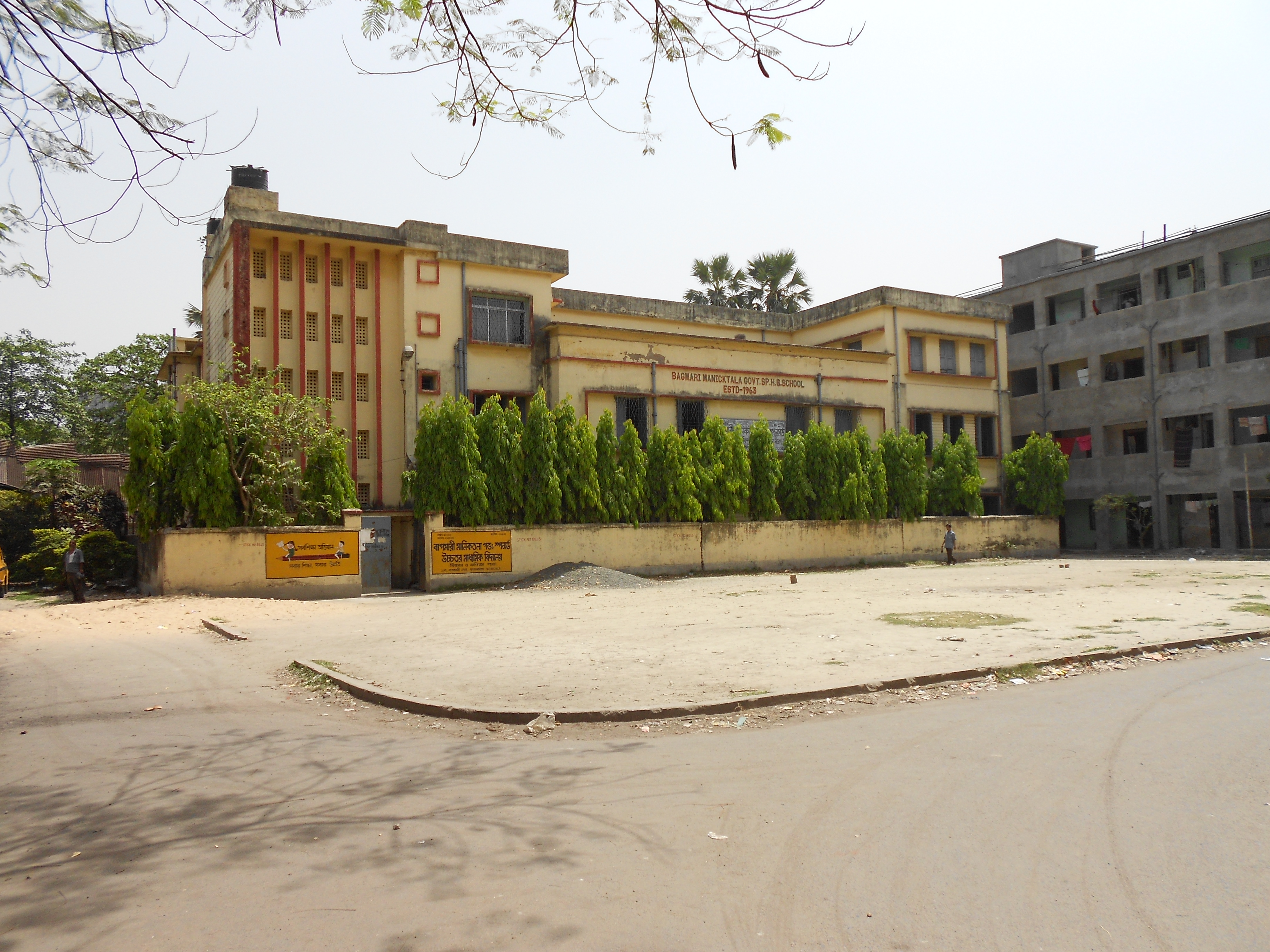 This is a Photograh of Bagmari-Manicktala Govt Sponsored Higher Secondary School.